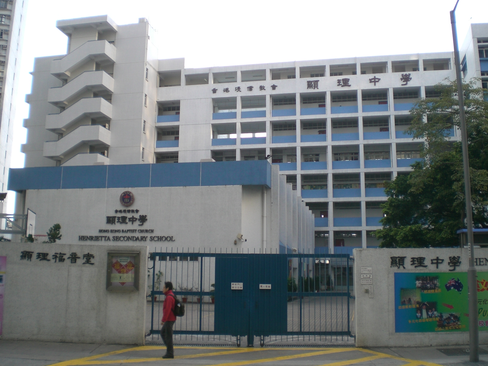 北角 顯理中學, 城市花園道